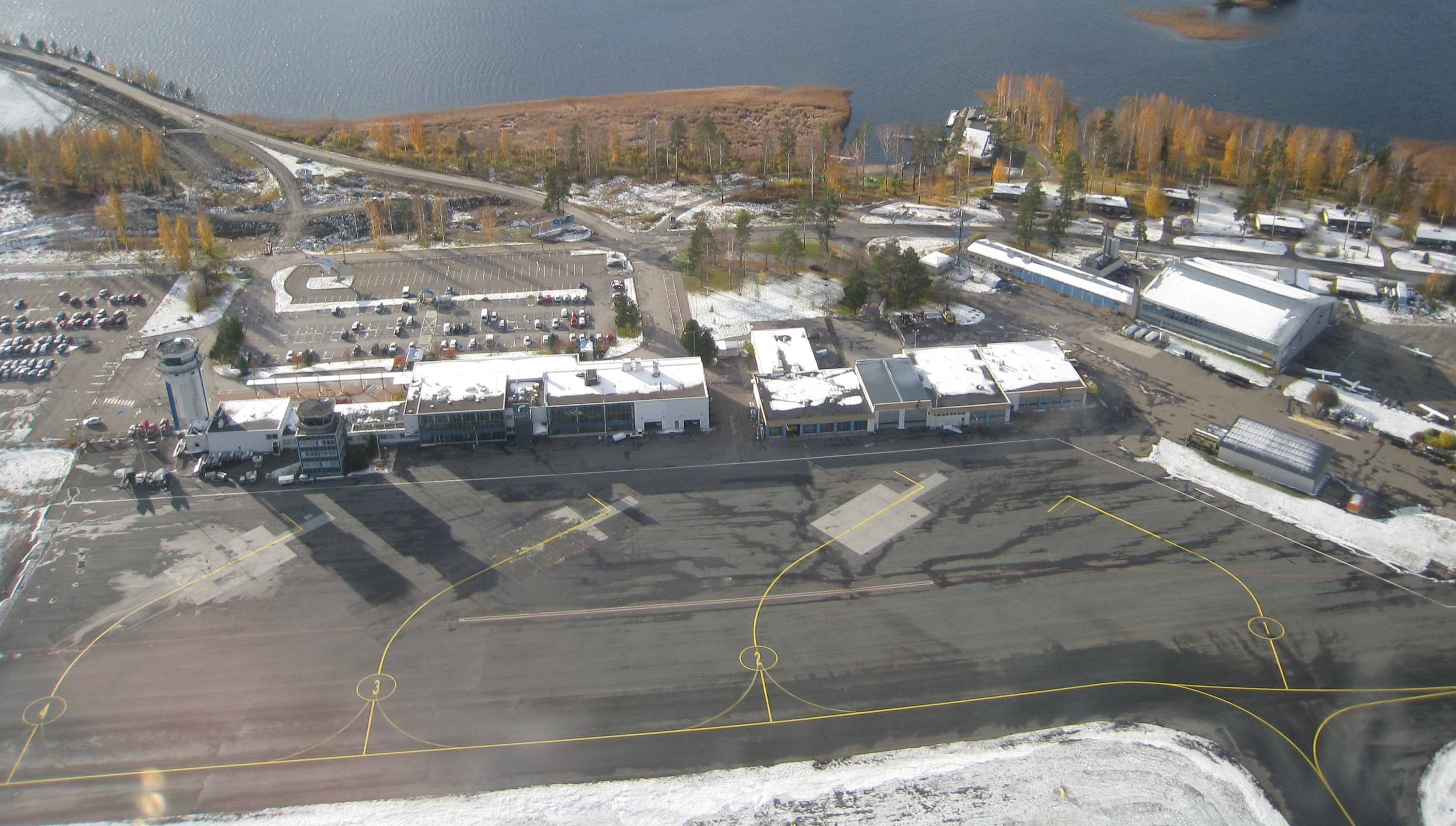 Aerial view of Kuopio Airport terminal and apron. Siilinjärvi, Finland.